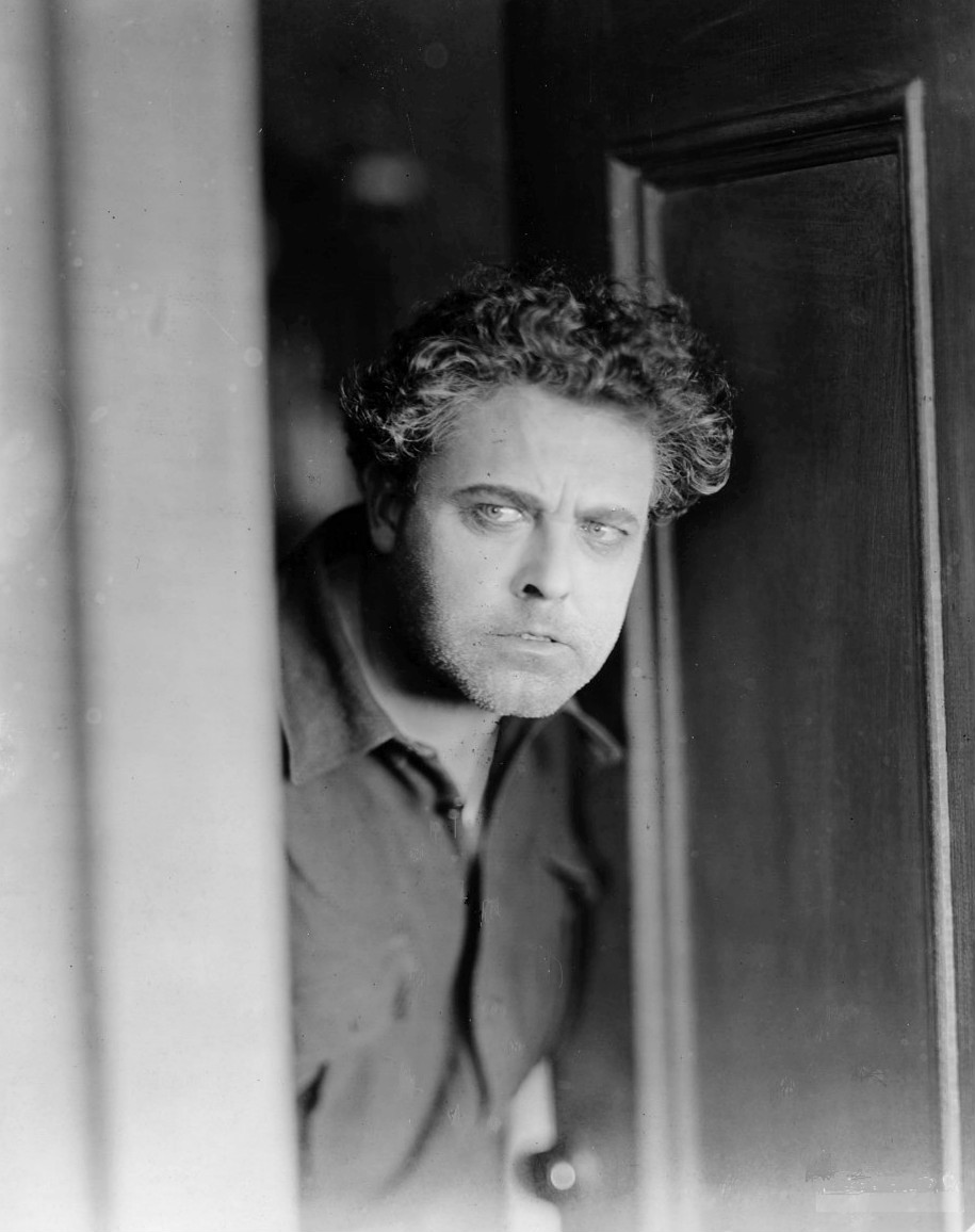 Photo of William Farnum from the 1920 film The Scuttlers.